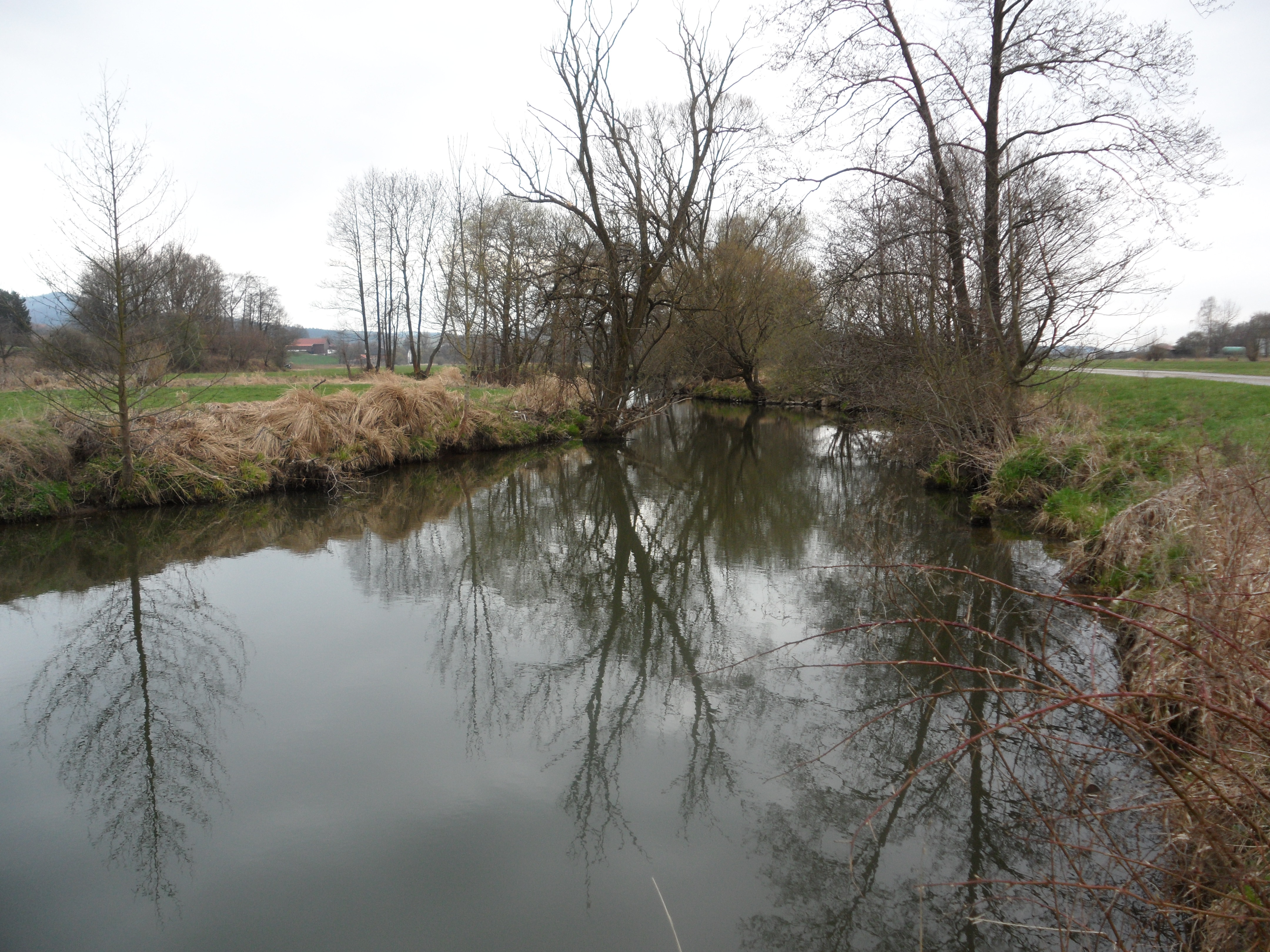 River Chamb close to Arnschwang